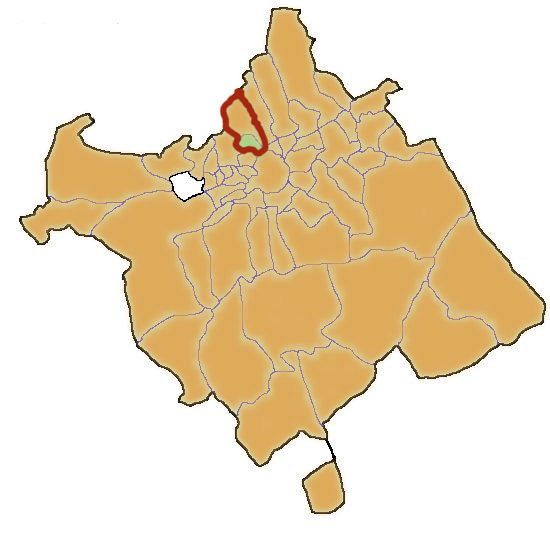 Espinardo's old county. Murcia's new area in green. At Murcia - Spain